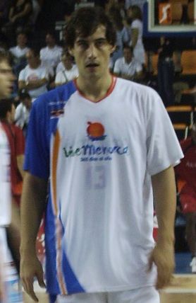 David Doblas with ViveMenorca. Match ViveMenorca-Akasvayu Girona